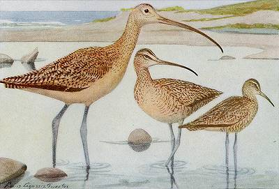 Long-billed Curlew, Hudsonian Curlew, Eskimo Curlew